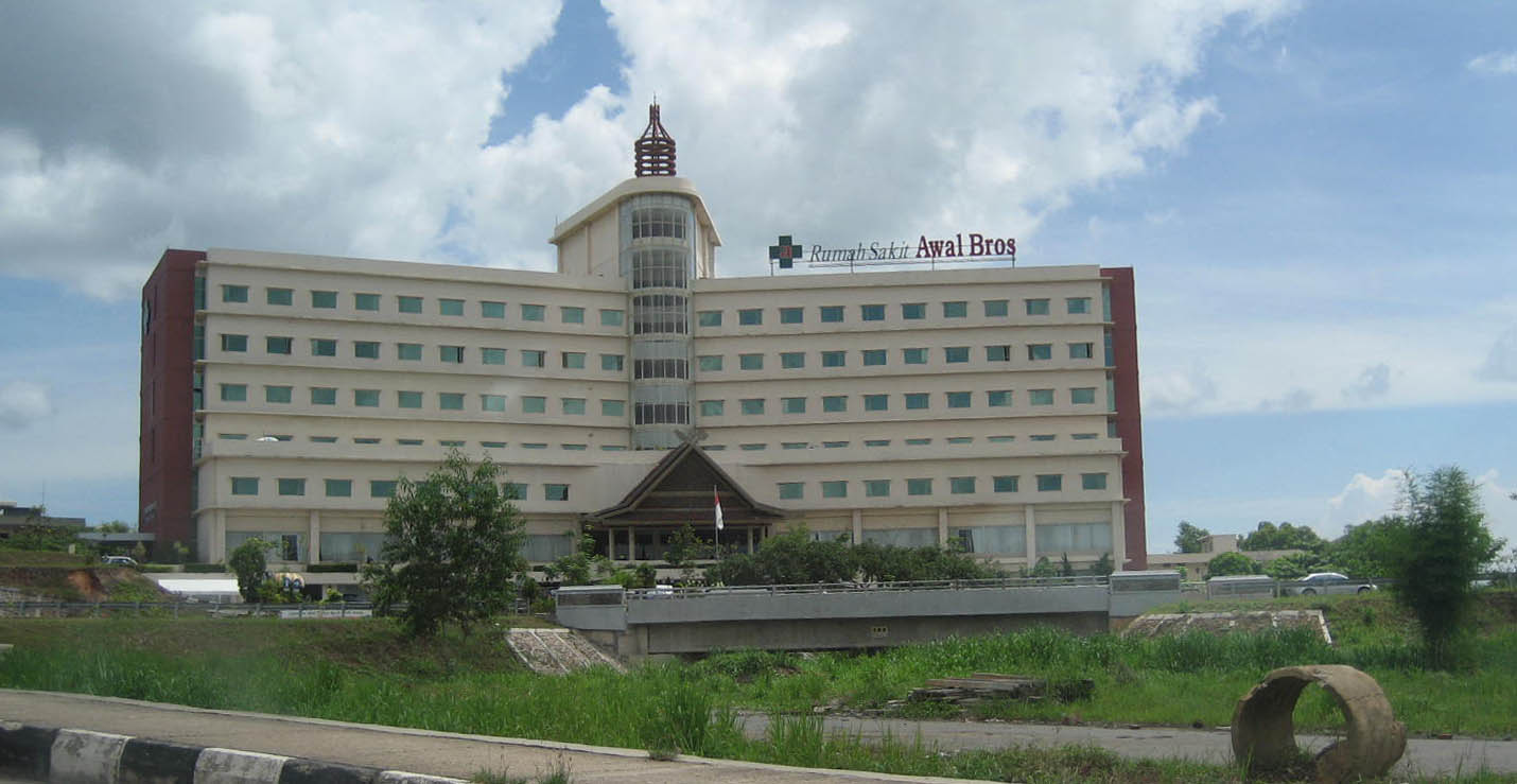 Awal Bros hospital at Batam island, Indonesia